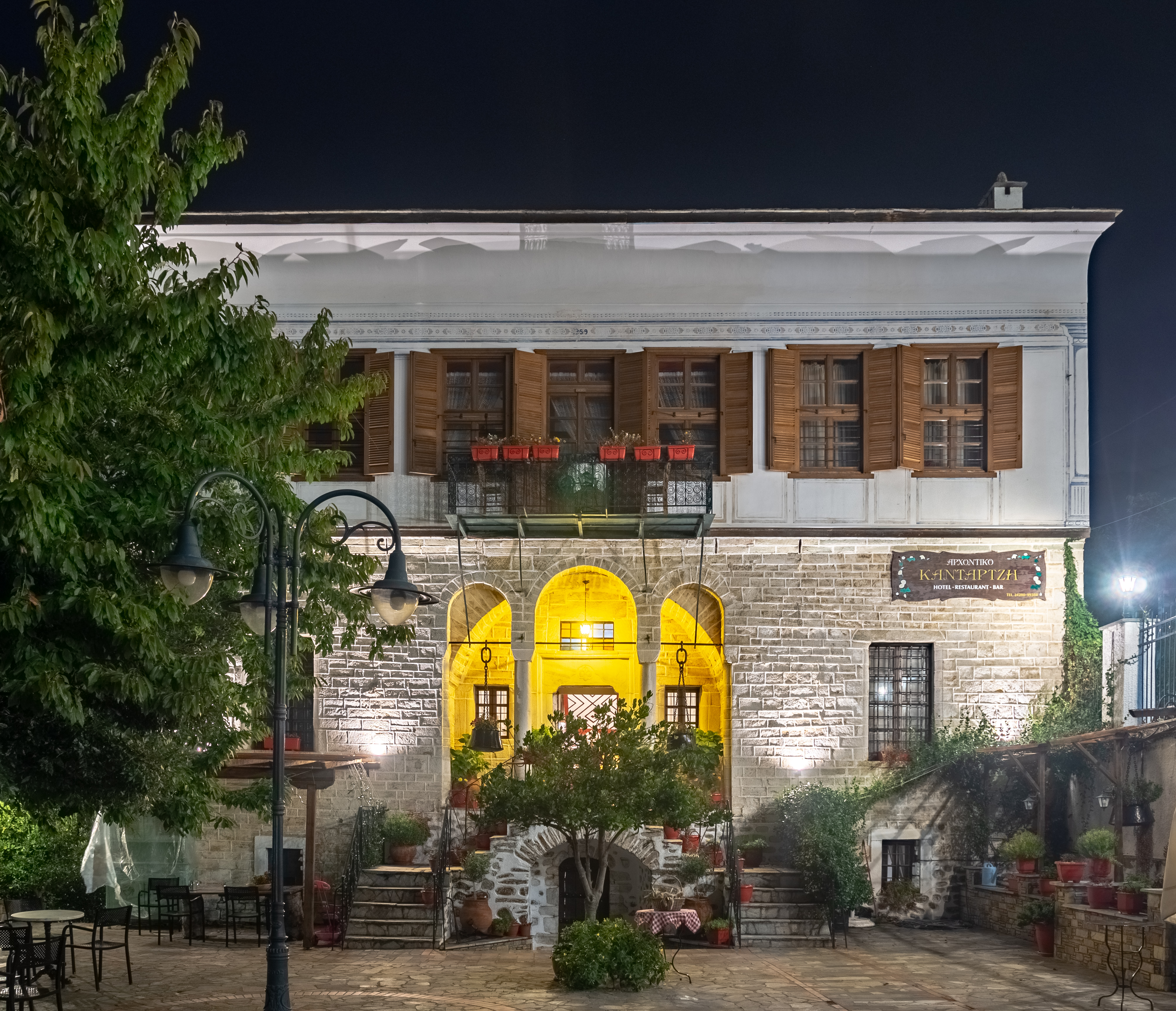 Kantartzis mansion, Portaria, at night«Αρχοντικό Κανταρτζή, Πορταριά»